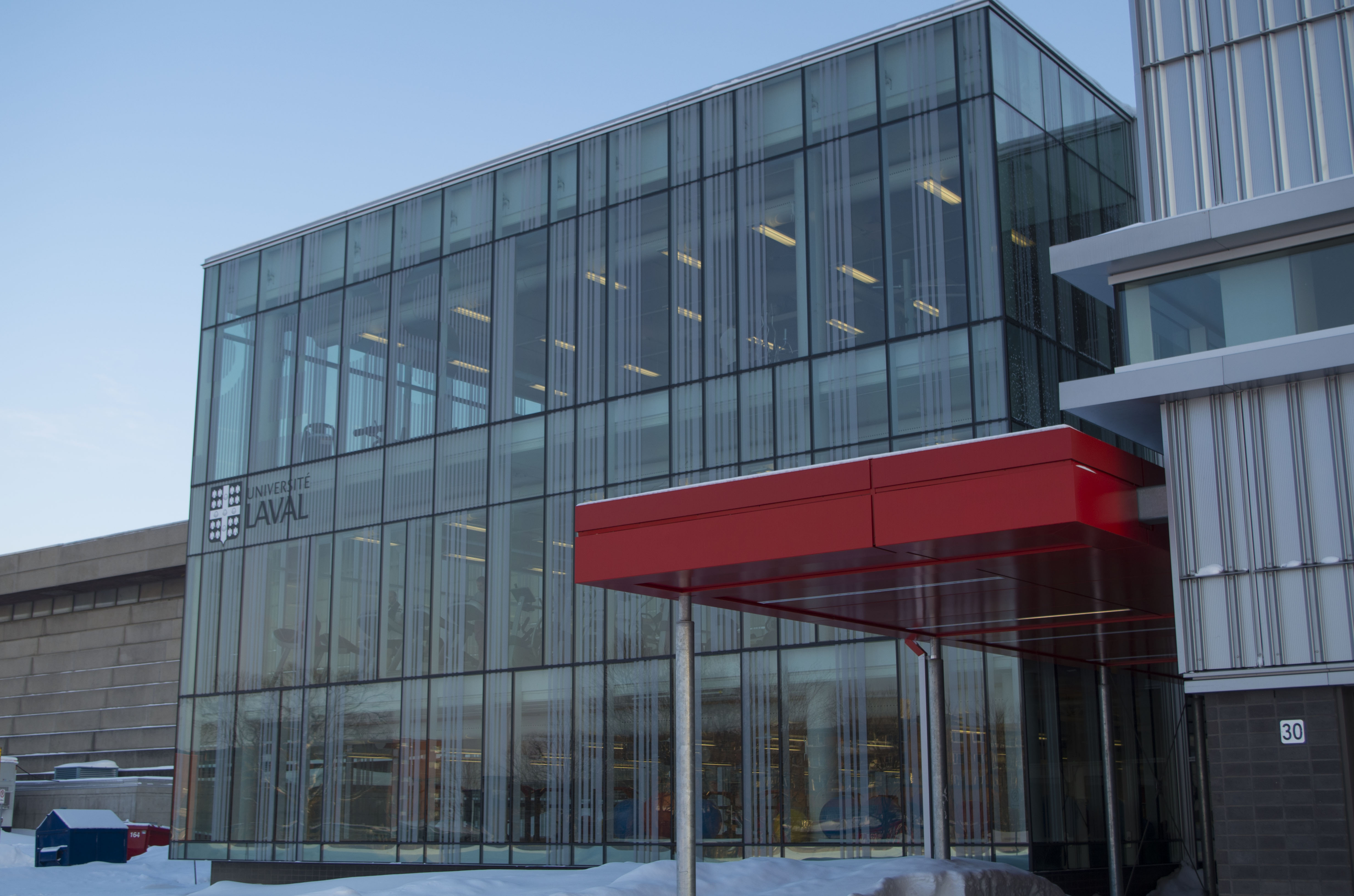 This is the three floors windowed gym of the Pavillon de l'éducation physique et du sport (PEPS) of Laval University.